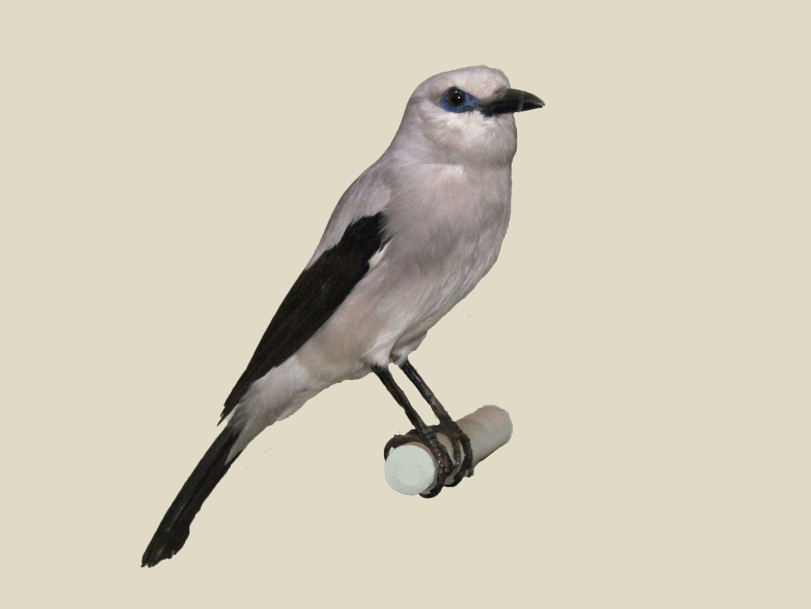 Stresemann's Bushcrow (Zavattariornis stresemanni), also known as Stresemann's Bush-Crow. Photograph of a specimen at Nairobi National Museum in Nairobi, Kenya.